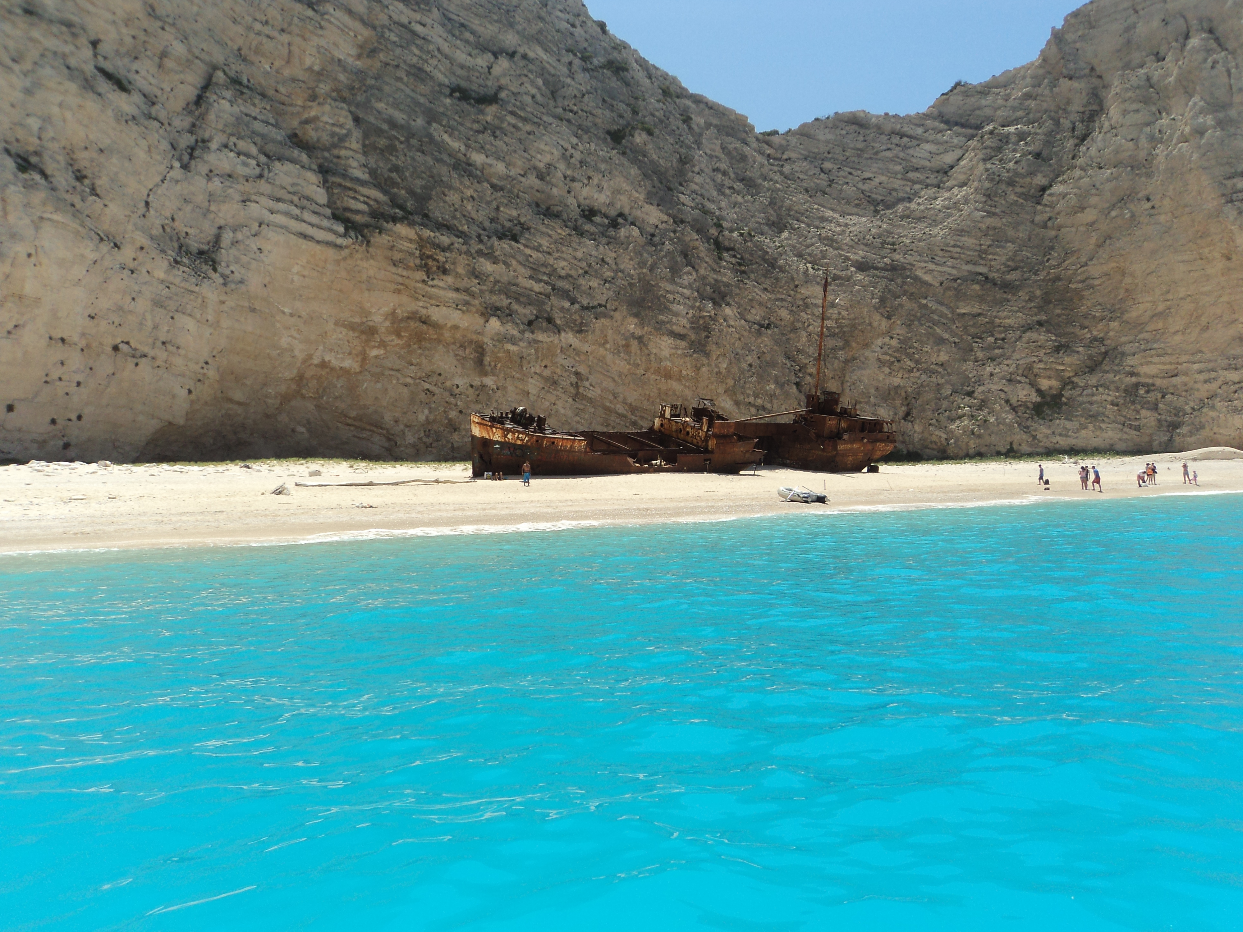 shipwreck